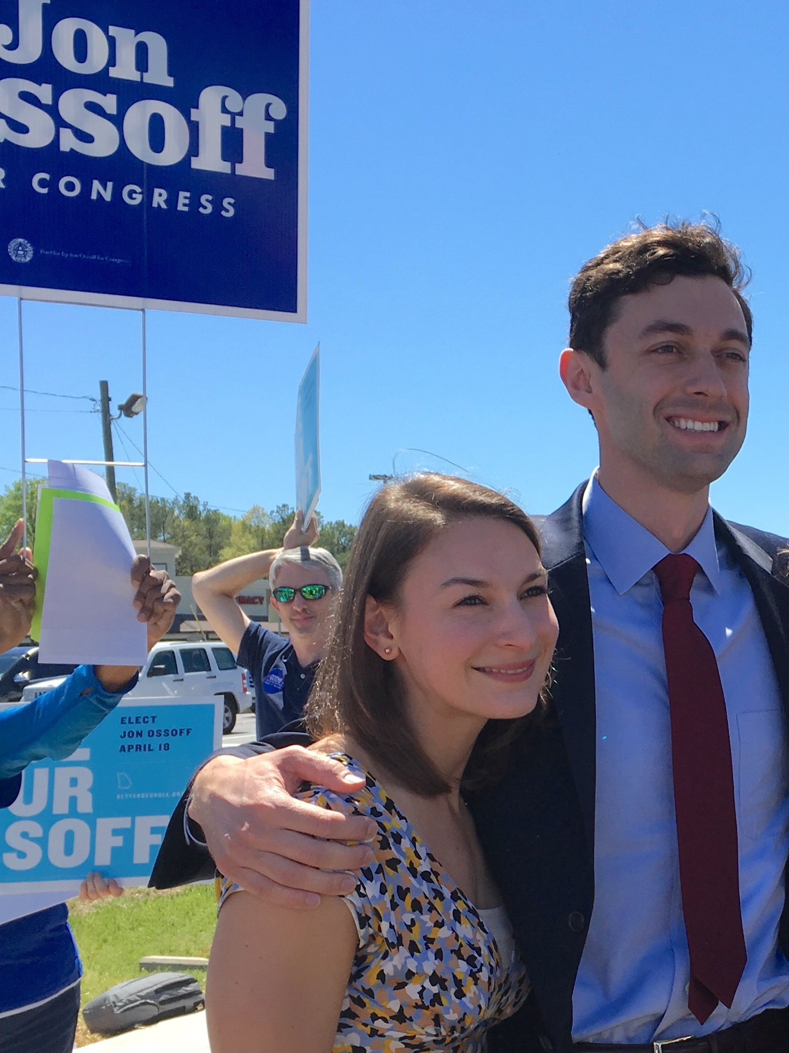 Street corner rally for Jon Ossoff